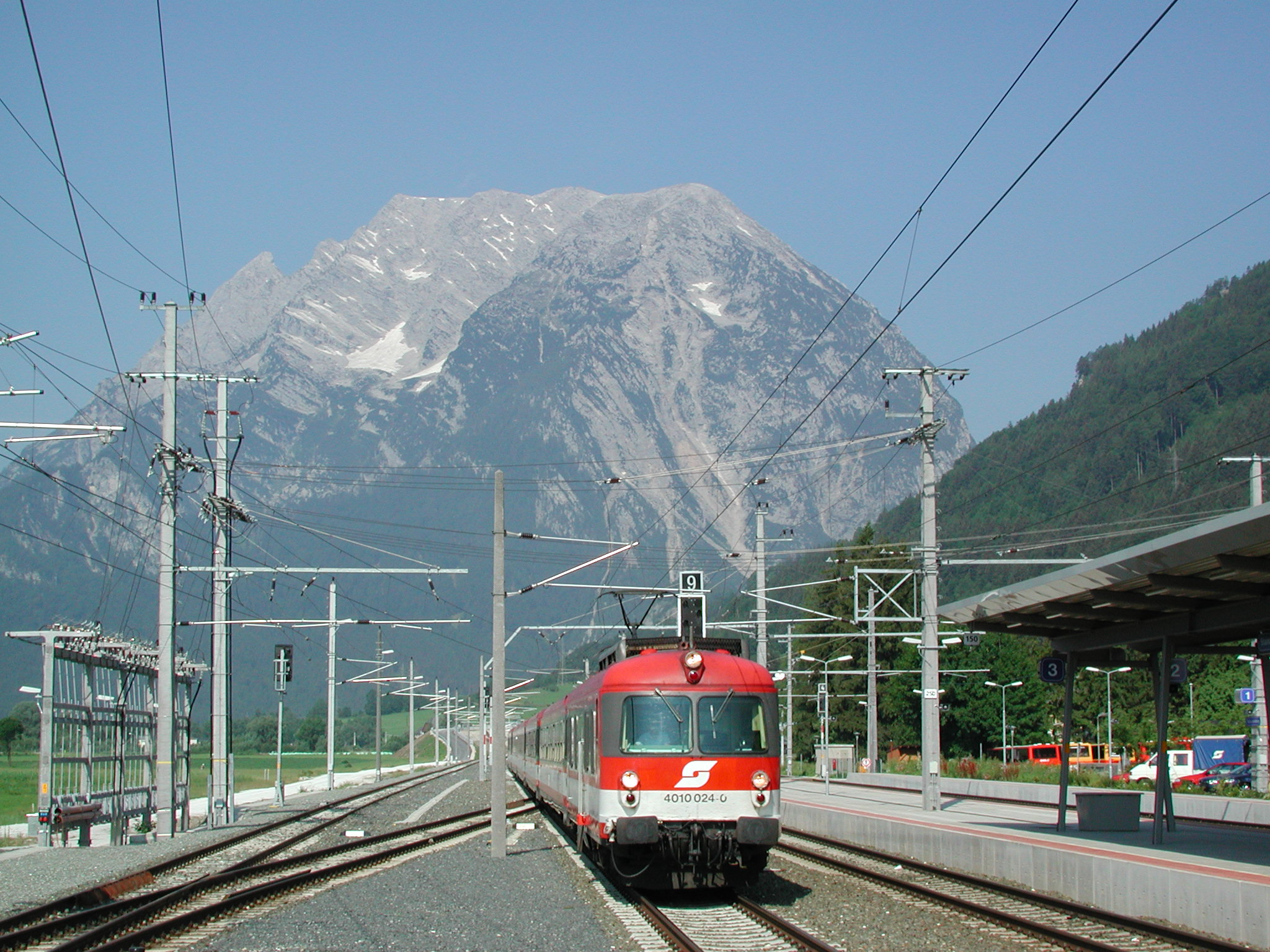 ÖBB 4010 024-0 entering Stainach-Irdning station on the styrian Ennstal line, overlooked by Grimming mountain.